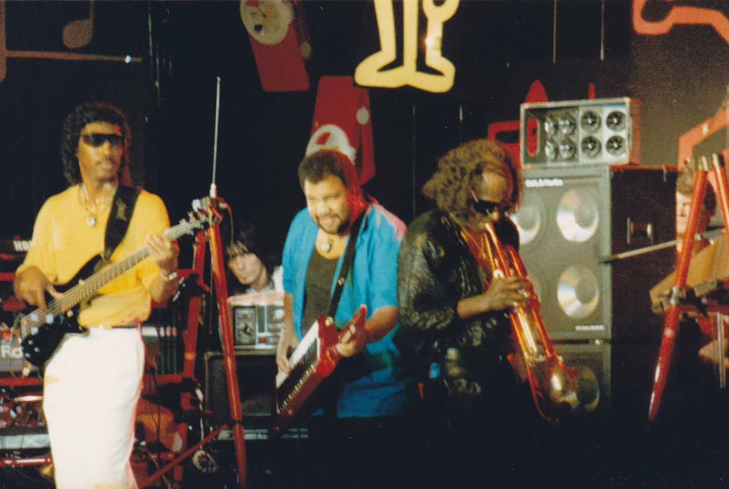 George Duke and Miles Davis in 1986 at Montreux Jazz Festival.